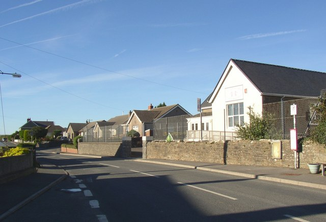 Llangynin school Judging by the estate agent's signs, this school has been closed. The children have probably been transferred to the new school building at Llanboidy